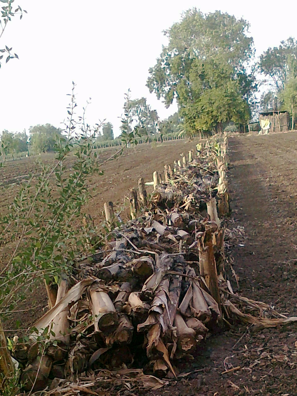 Banana crop residue in a banana farm at Chinawal village, India